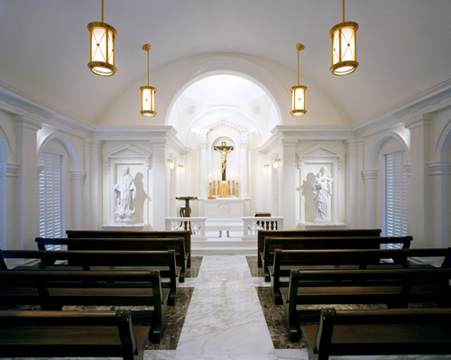 Holy Family Chapel, Nebraska